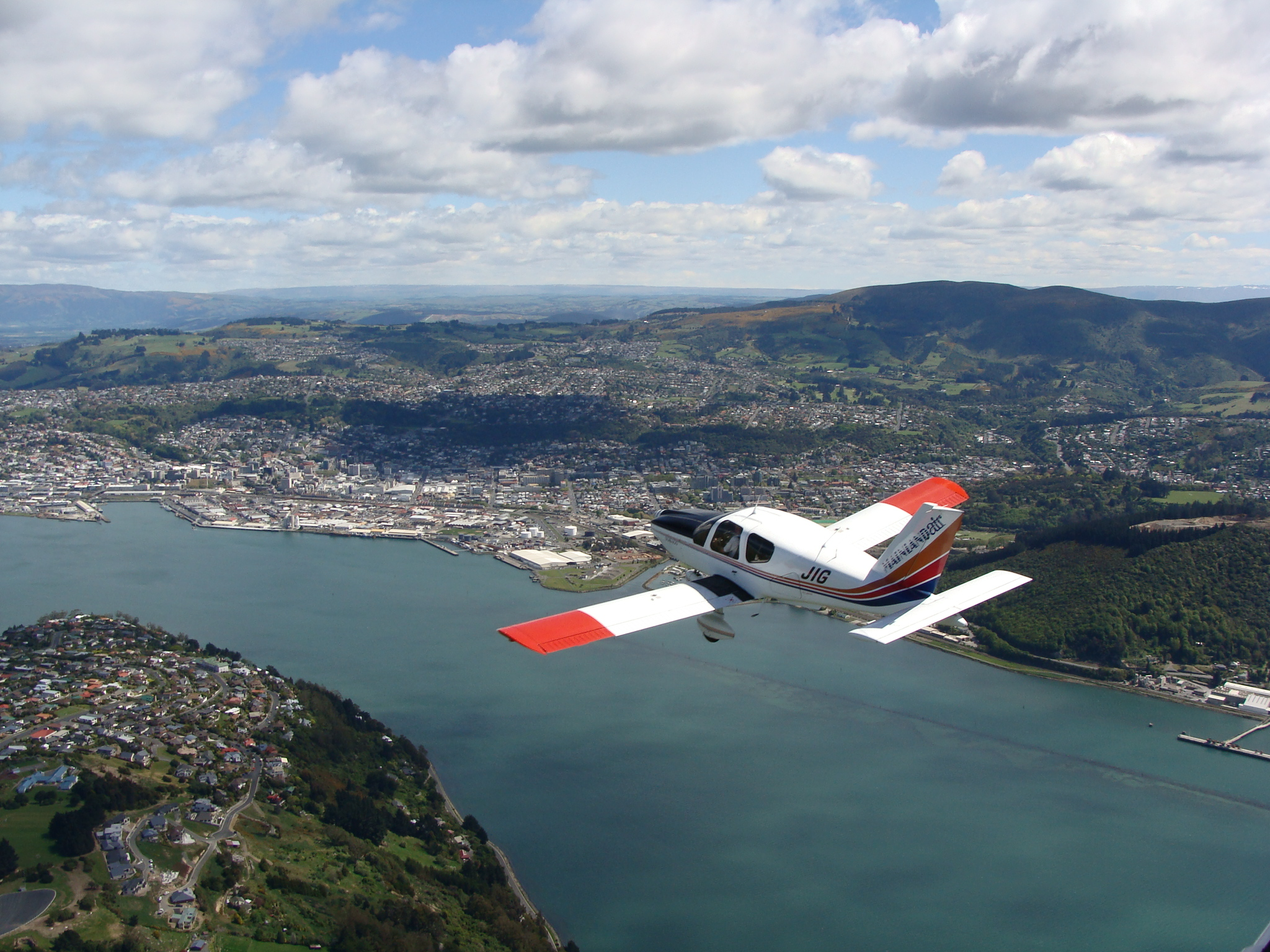 This photo came from the myself. Created 2007, by myself. Multimedia image